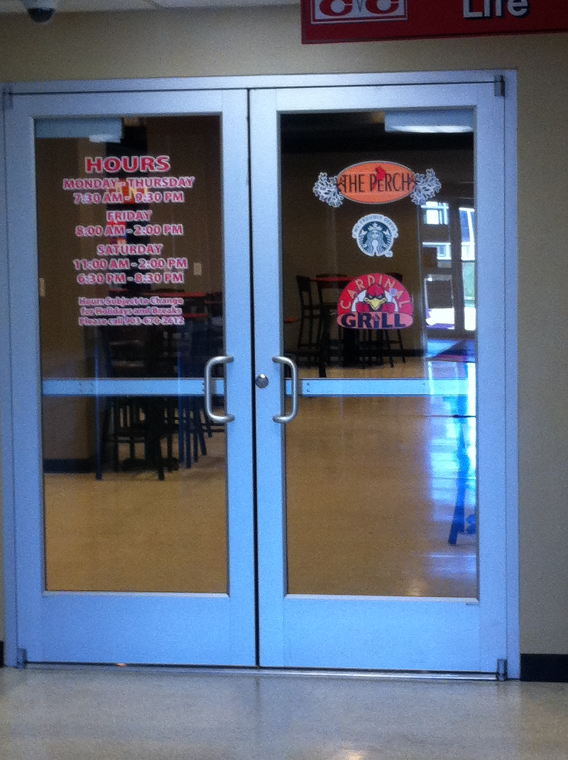 On-campus coffee bar/cafe located at Trinity Valley Community College.